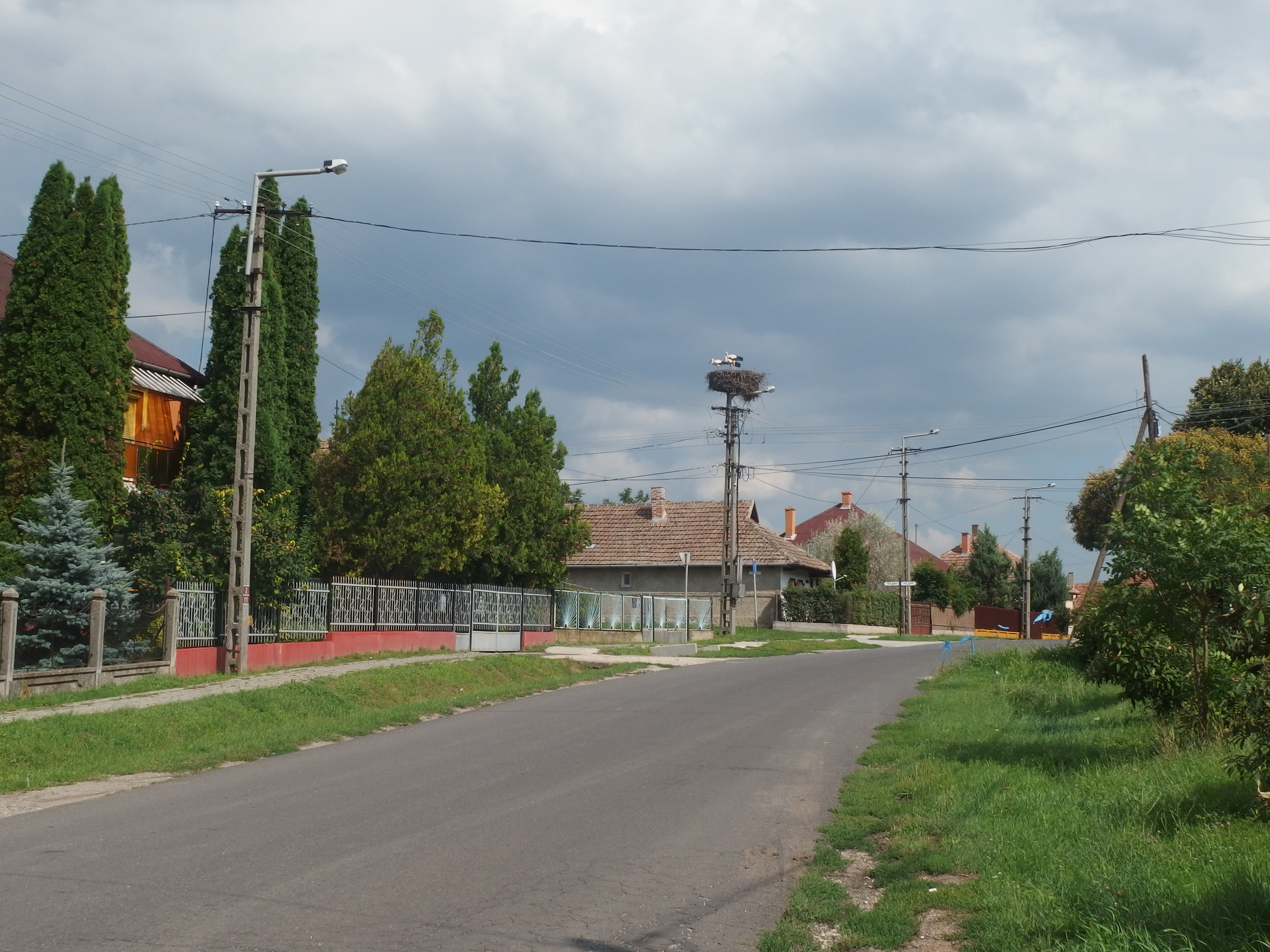 Tiszalúc, Hungary.